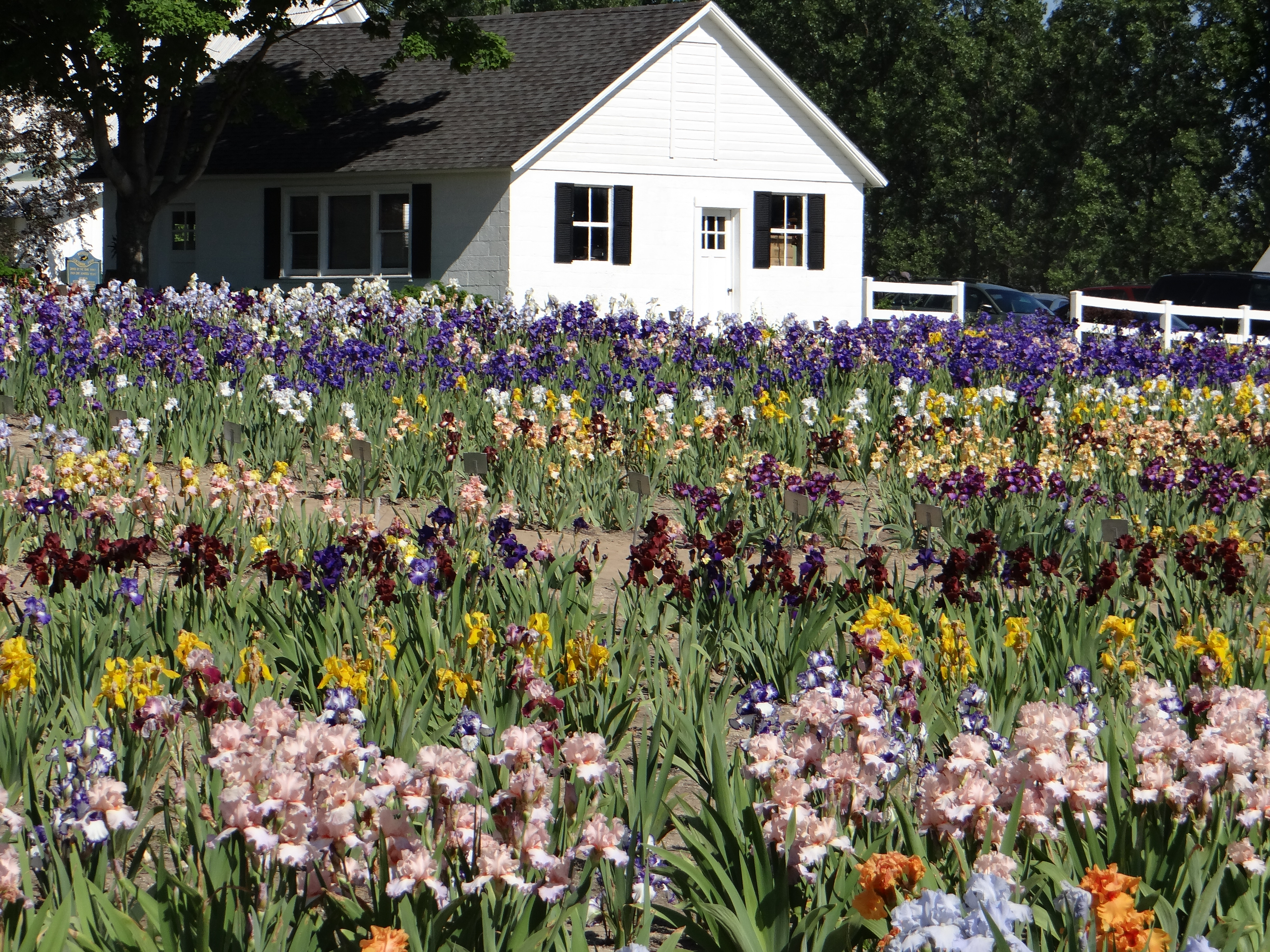 A field of different colored Irises on a farm near Traverse City, MI.